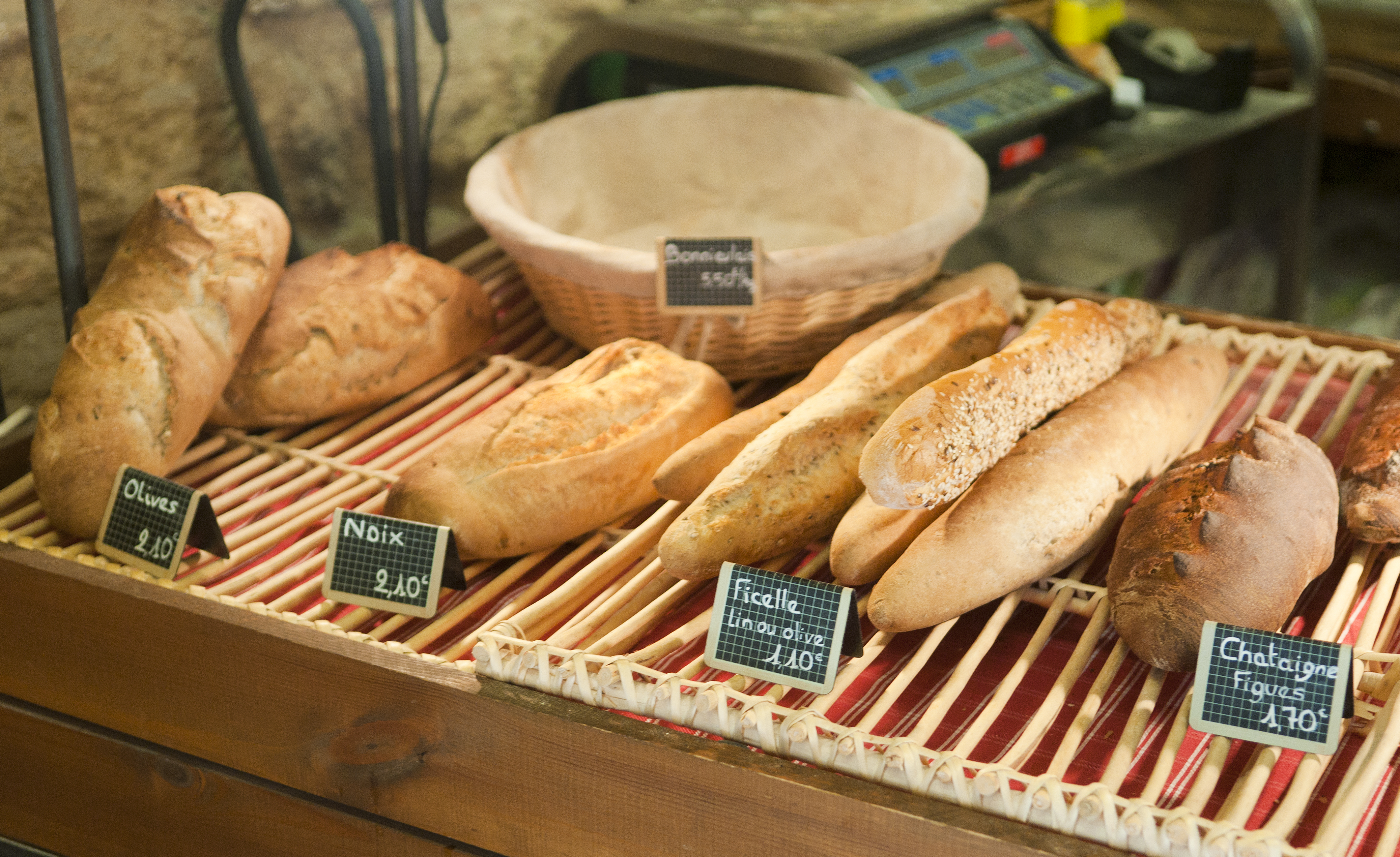 Inside of a bakery in Bonnieux, Provence, France